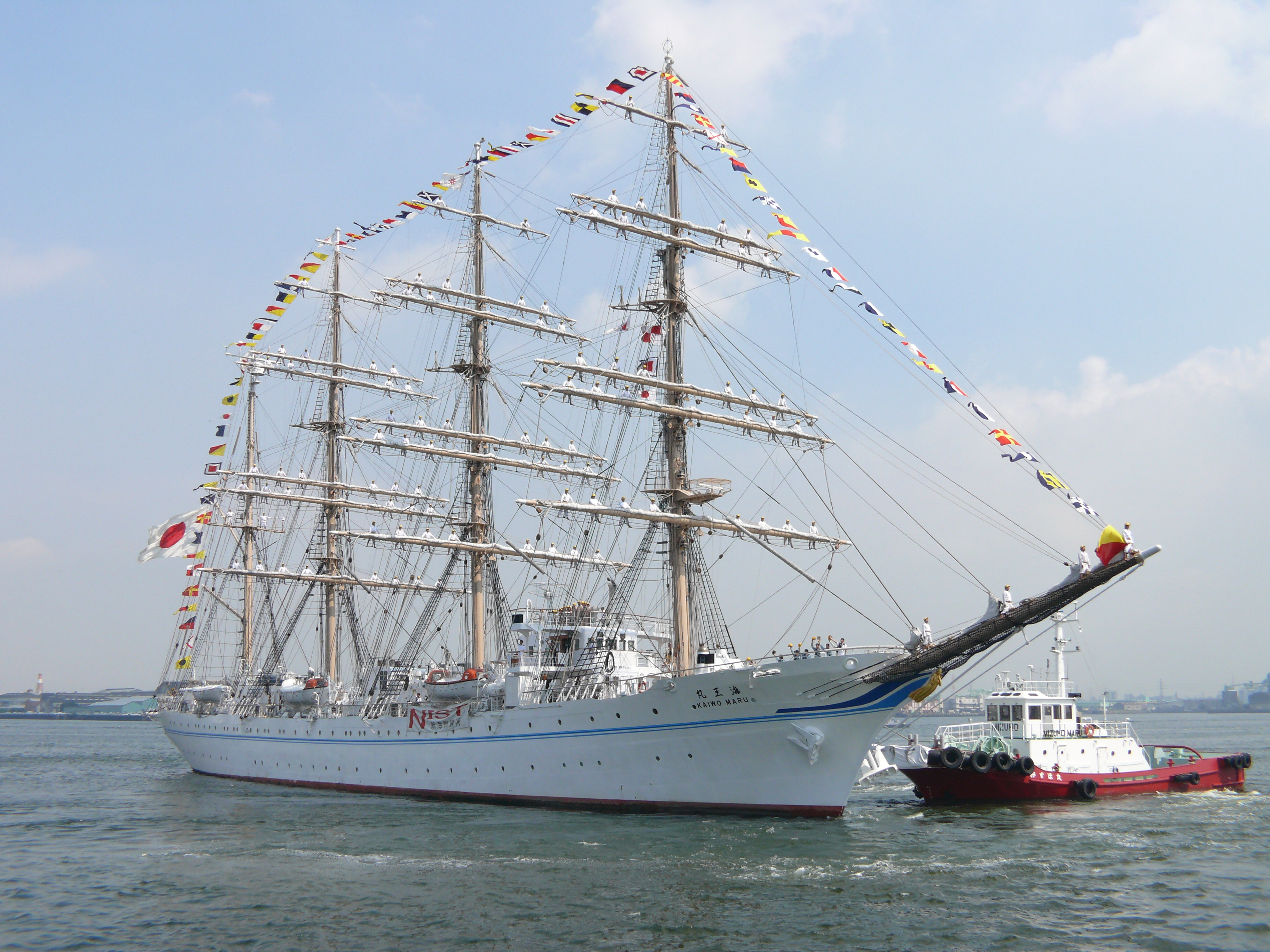 Kaiwo Maru, a four masted barque, at the Nagoya Port Garden wharf. IMO number: 8801010 Built in Sumitomo S.B. Length overall: 110.09 m Beam: 13.8 m GRT: 2,556 Tug MIZUHO MARU